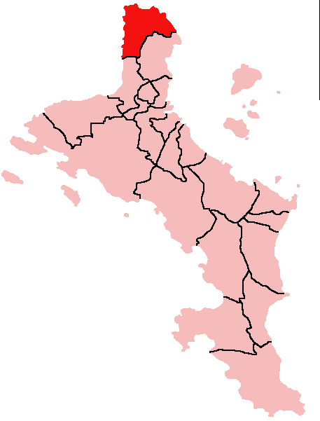 Map of Mahe Island, Seychelles showing Glacis District; created with the GIMP. Made by User:Acntx.